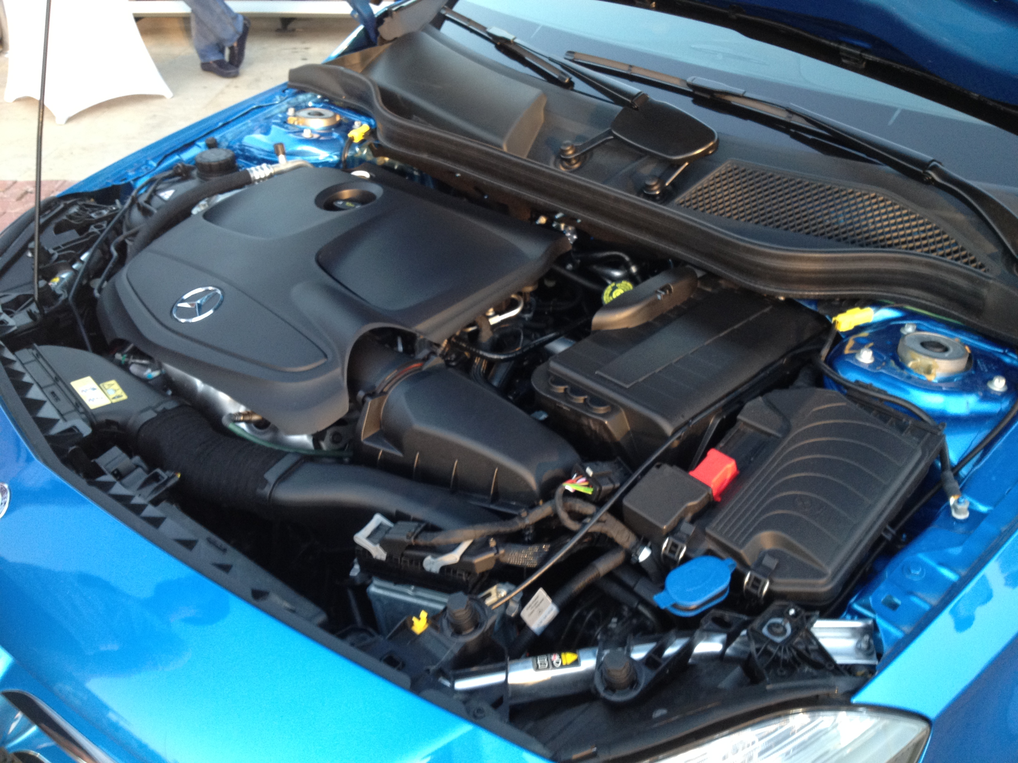 Mercedes A-Class 2012.